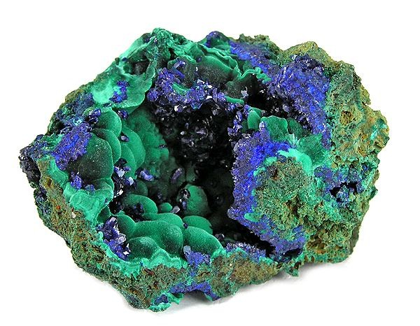 Azurite, Malachite Locality: Anhui Province, China (Locality at ) Azurites have been coming from Anhui Province in decent numbers, much to everyones delight, but not many specimens such as this, with a pretty balance of azurite and malachite. In fact, the malachite is represented in a velvety botryoidal form, and the azurite by sparkly crystals, so there is a really nice contrast. 6.4 x 4.5 x 4.2cm